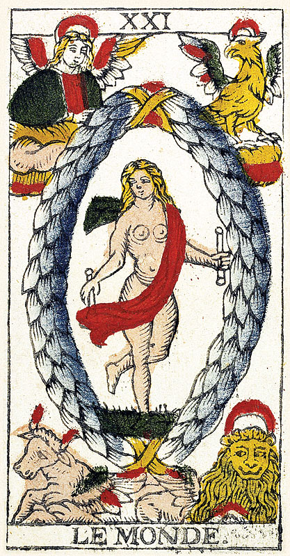 Trump 21 - Le Monde, from a "Tarot de Marseille" printed by Pierre Madenié (France 1709)